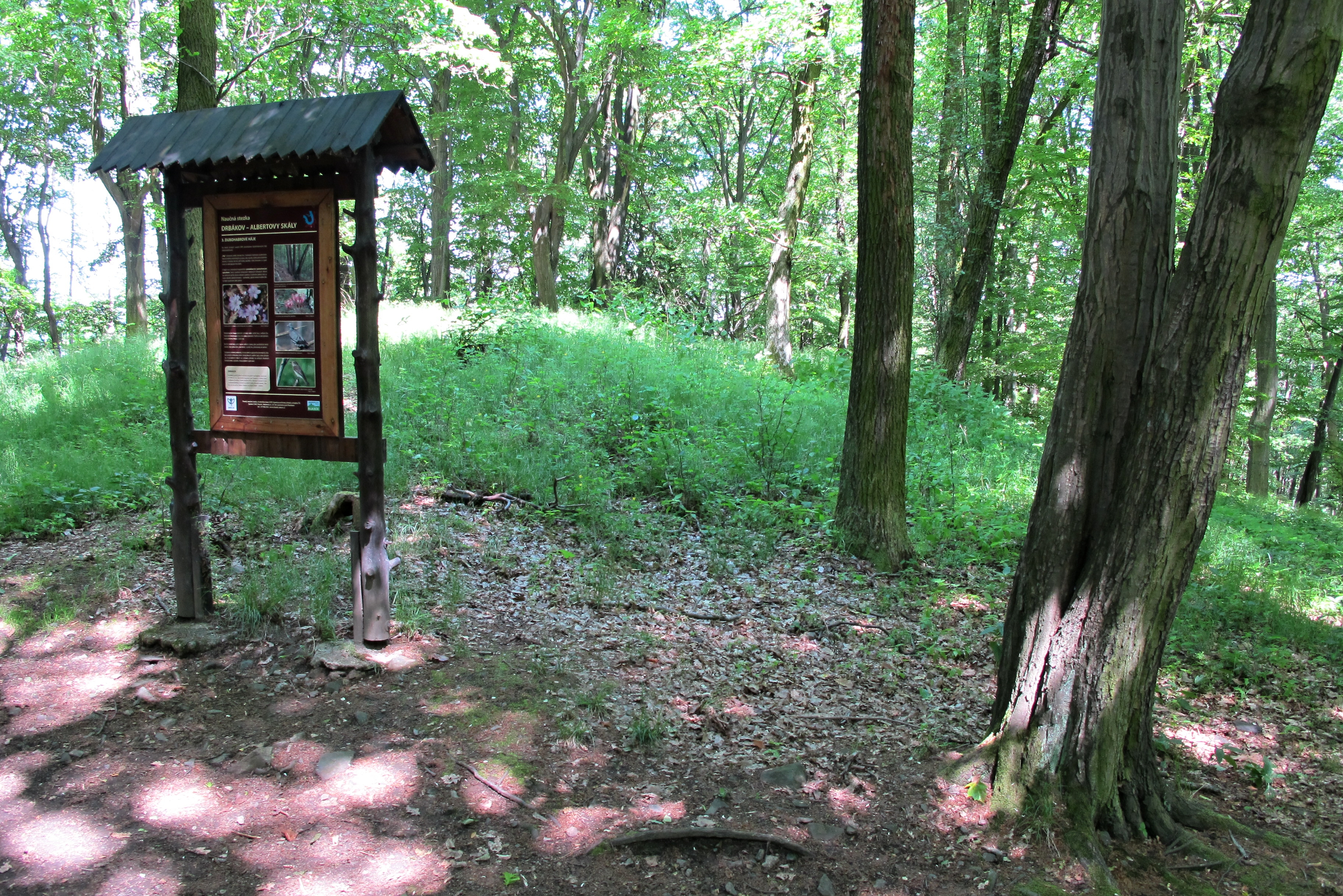 National nature reserve Drbákov-Albertovy skály near Nalžovické Podhájí in Příbram District